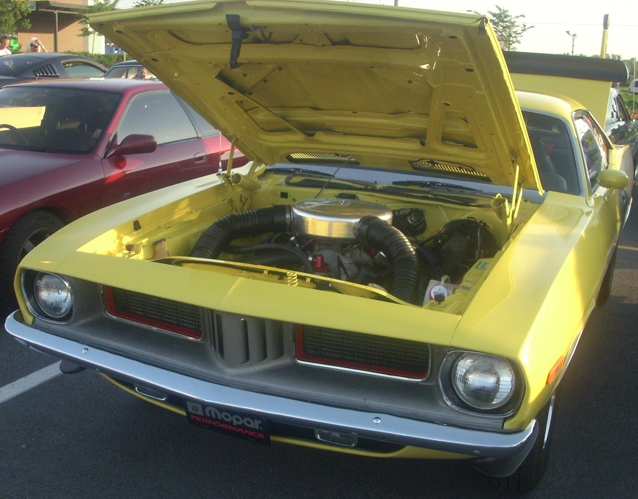 Plymouth Barracuda photographed in Laval, Quebec, Canada at Centropolis Laval.